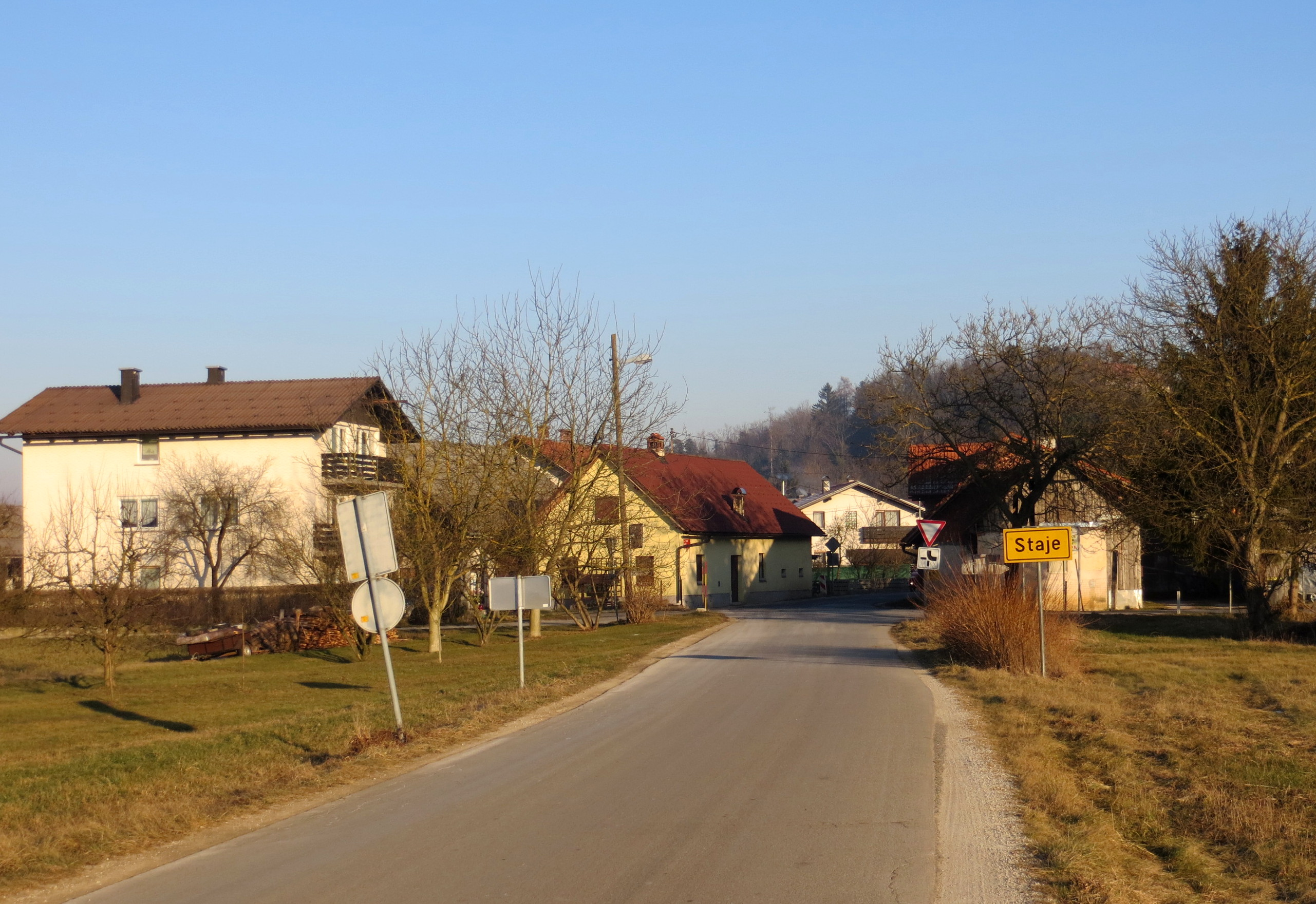 Staje, Municipality of Ig, Slovenia